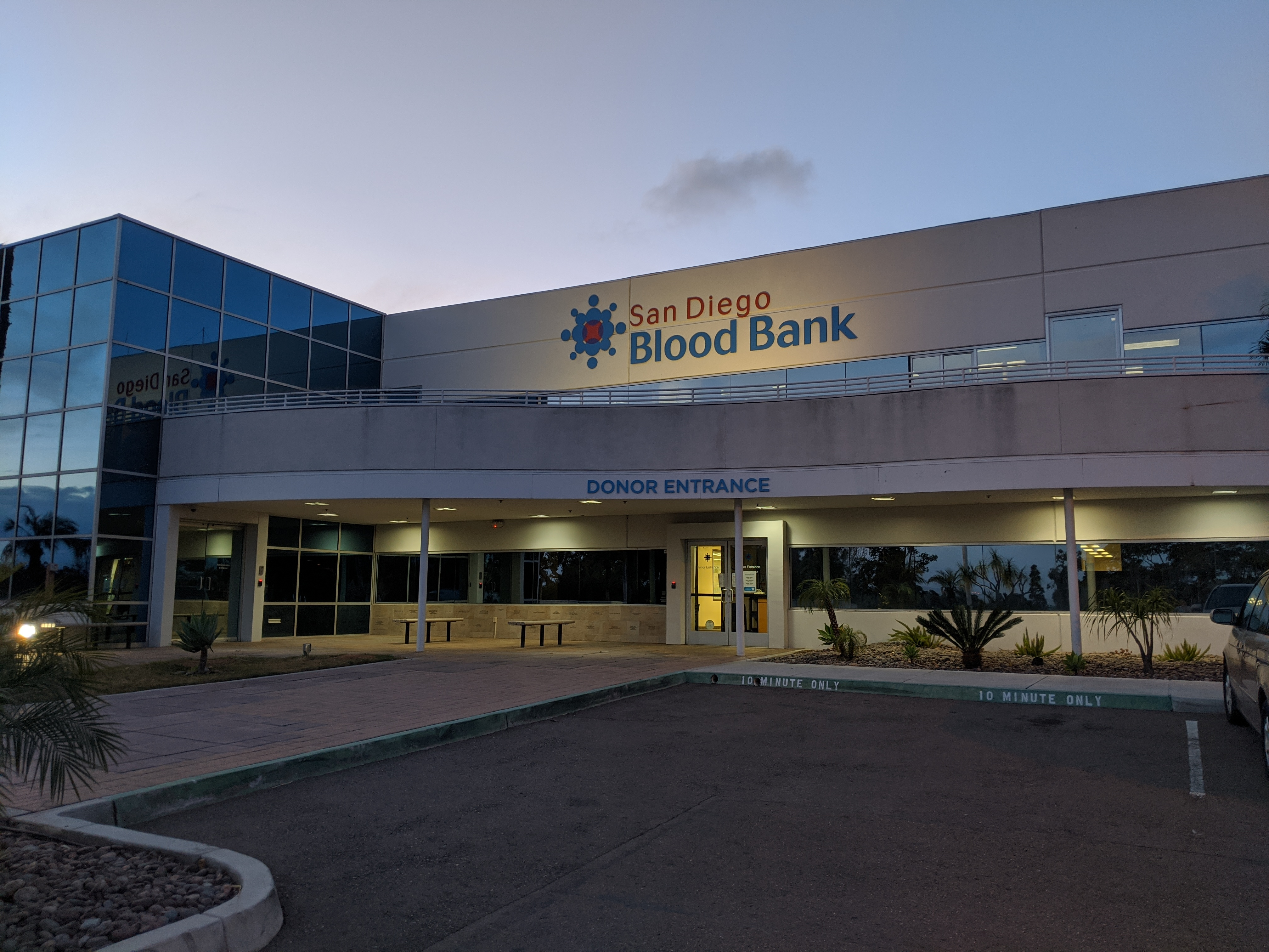 organization